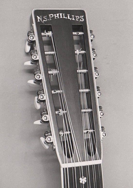 Headstock of a 12-string guitar by Steve Phillips, U.K. (photograph by Tony Rees)